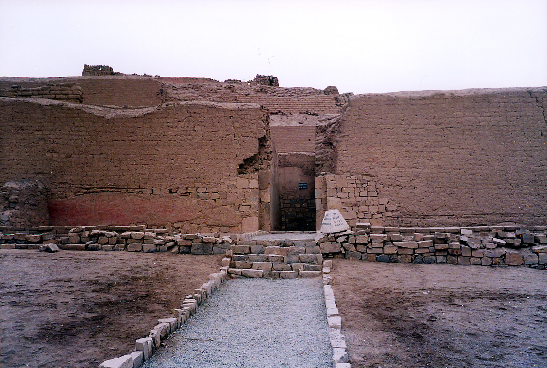 The Pachacamac Temple of the Sun. The photo was taken in 2002 by Håkan Svensson (Xauxa).